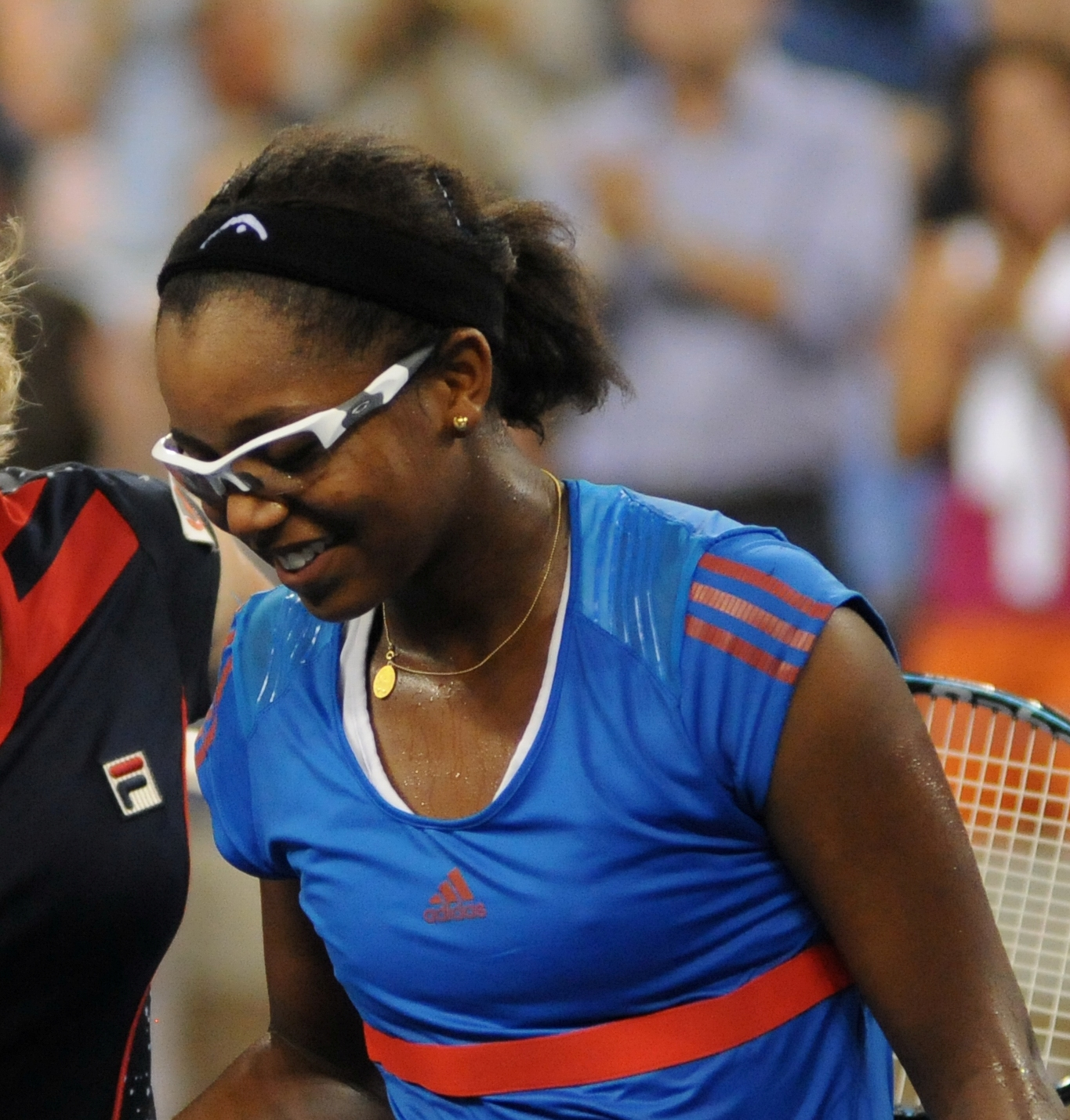 US Open 2012 Victoria Duval cropped from pic with Kim Clijsters